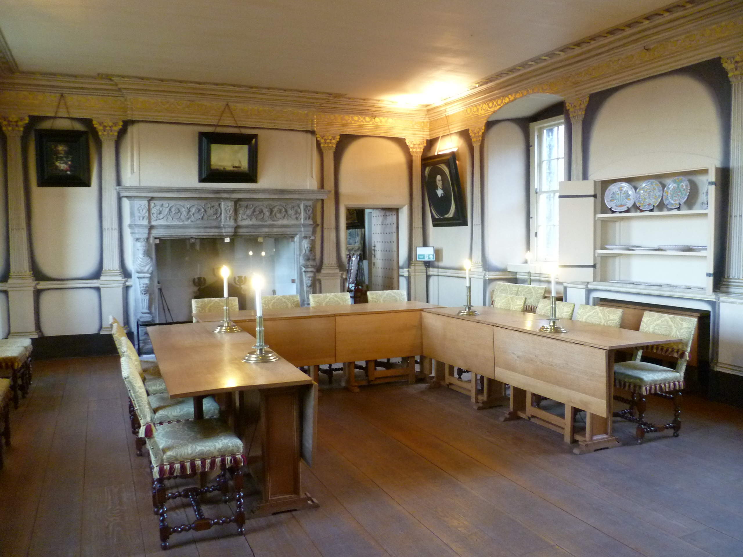 The High Dining Room, Argyll's Lodging, Stirling